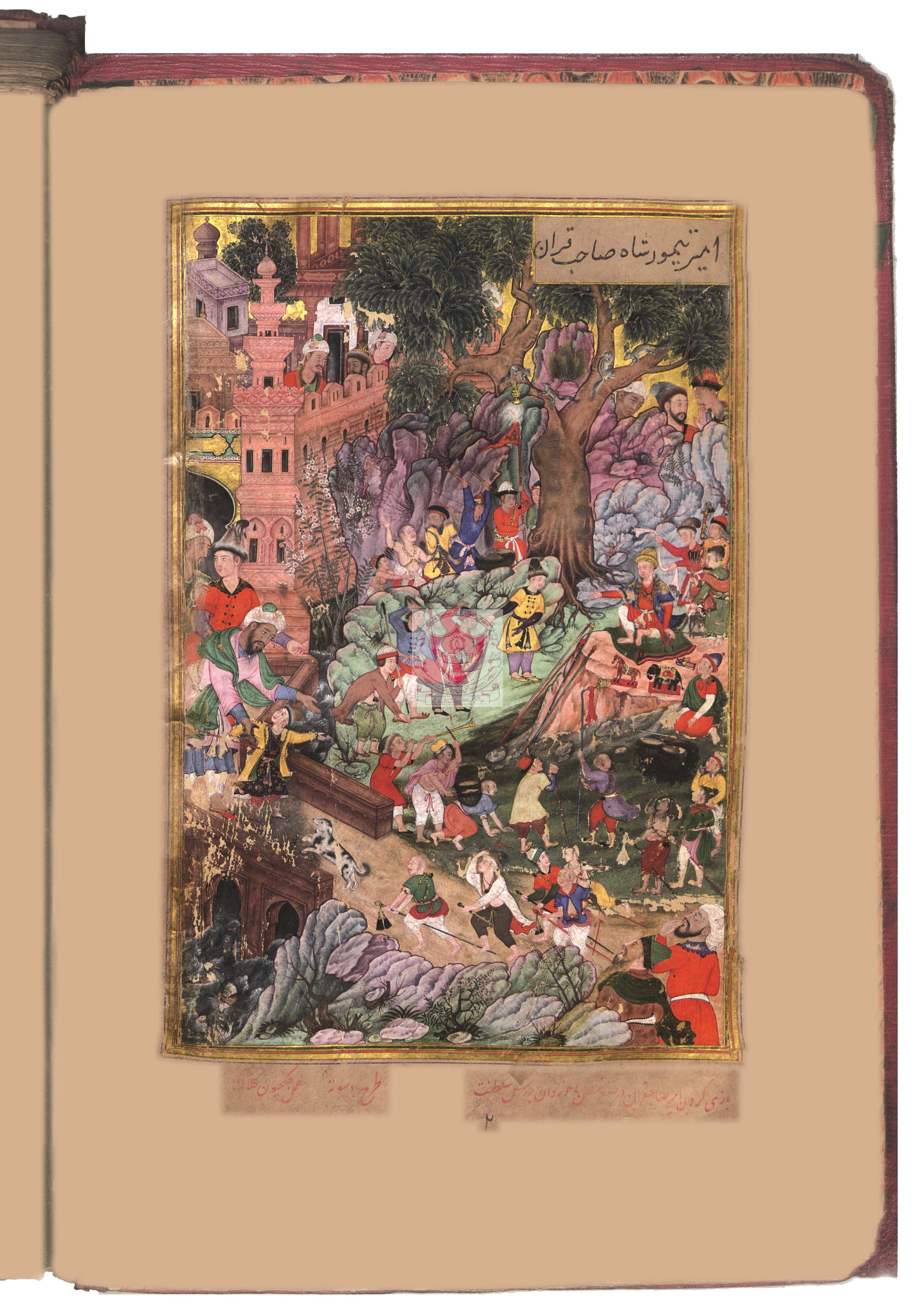 Childhood of timur from Mughal book Tarikh-i-khandan-i-Timuriya or "Timurnama" prevent at Bankipur Patna library by Artist Daswanth and Jagjiwan kalan .